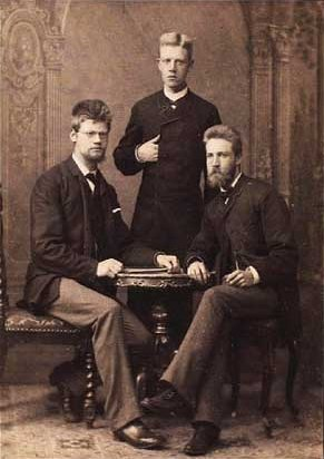 Axel Olrik (1864-1917), Danish folklorist and philologist, Eyvind Gunnar Olrik (1866-1934), Danish judge, and Hans Thorvald Olrik (1862-1924), Danish historian.